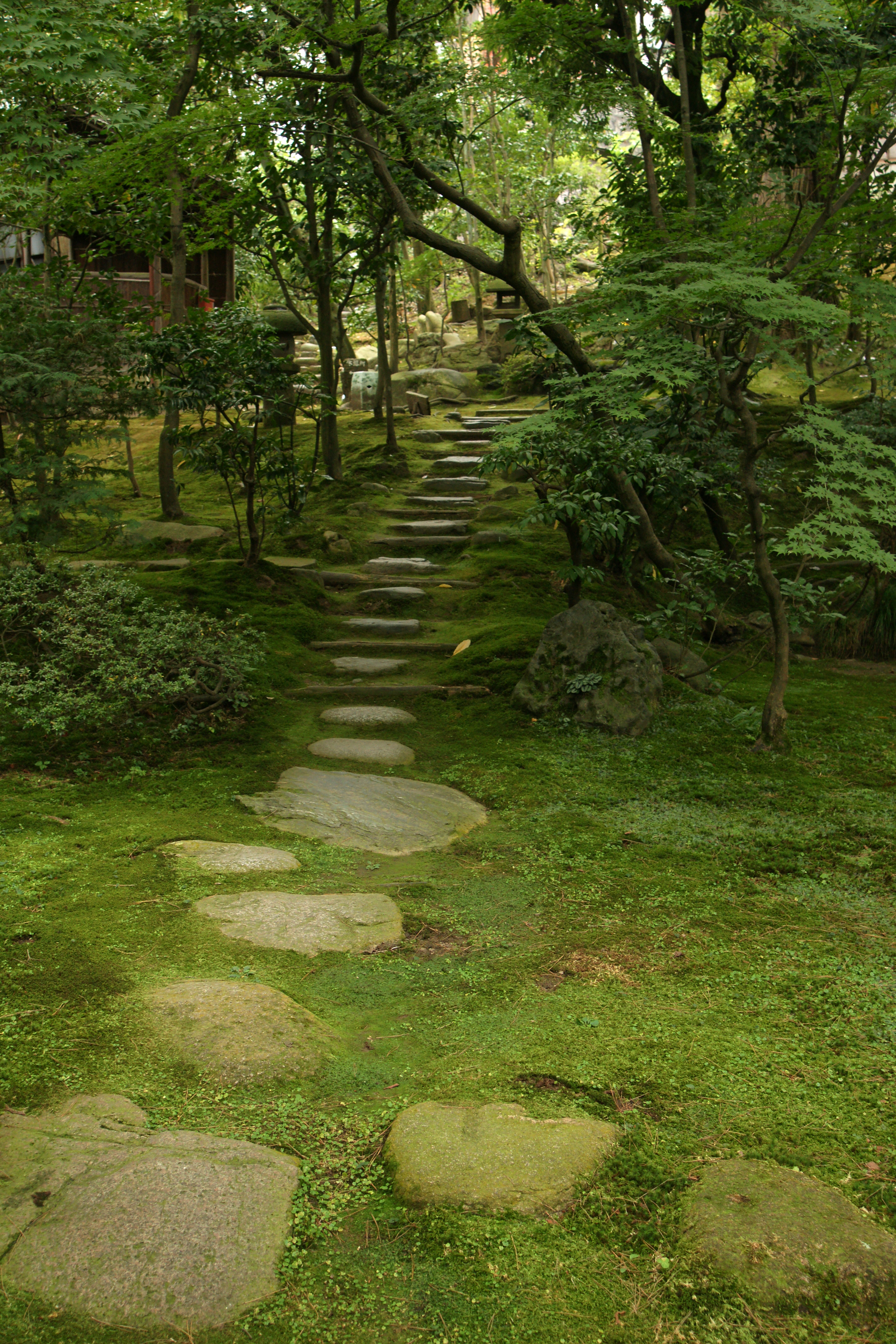 Gyokusenen in Kanazawa, Ishikawa prefecture, Japan